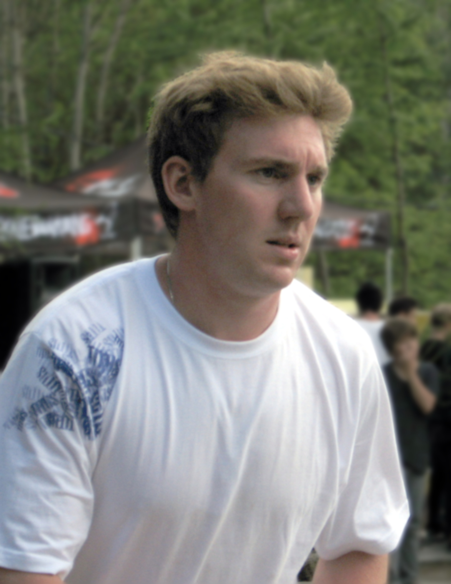 Yannick Schall a german skateboarder at the Cos Cup on the Sauerlandpark Hemer (Germany).